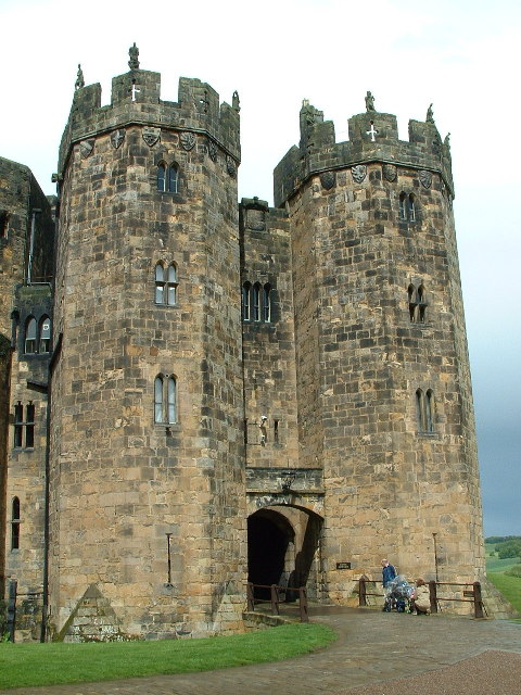 Alnwick Castle Keep